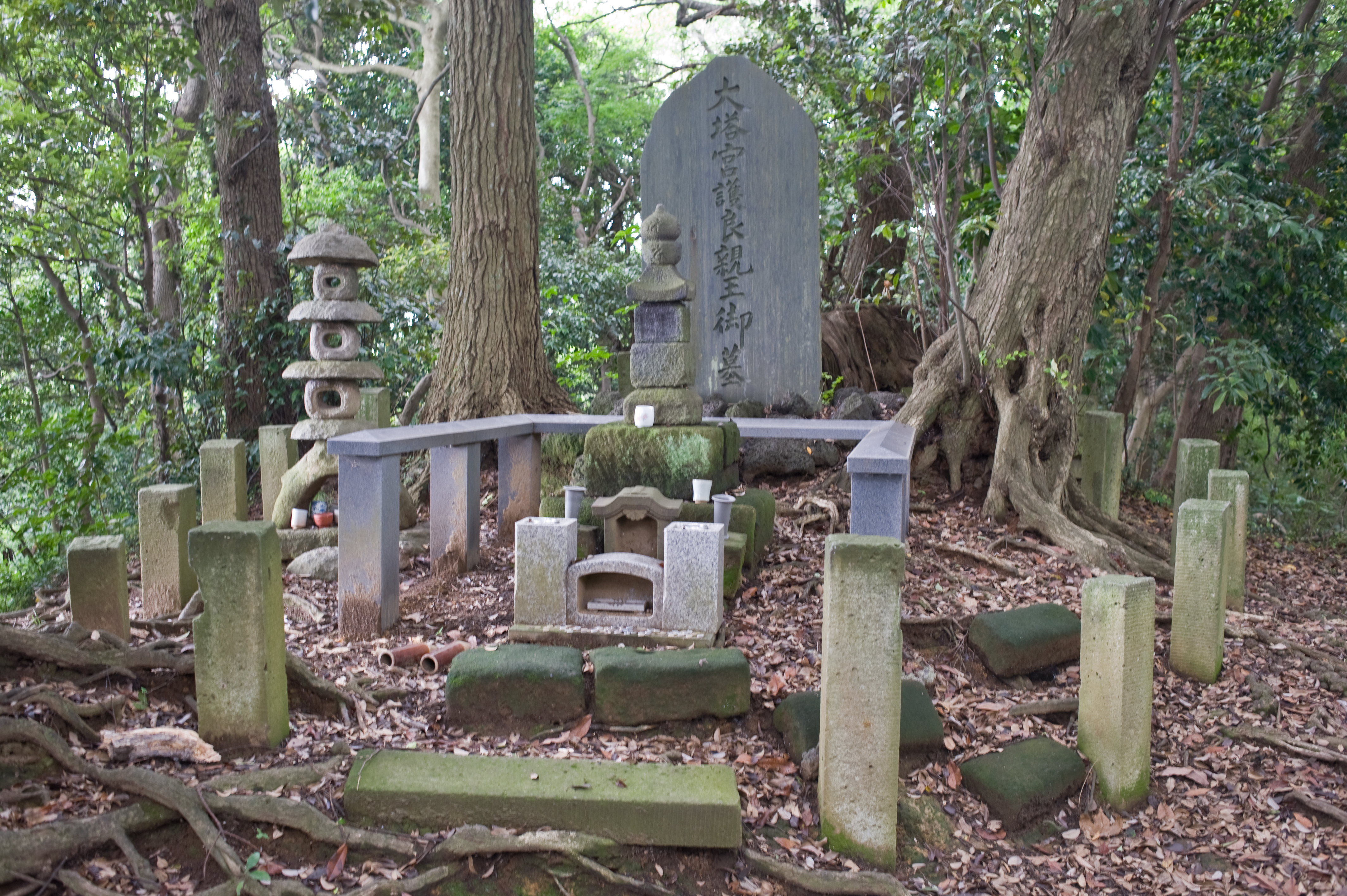 Cenotaph to Prince Morinaga(護良親王) at Myouhouji in Kamakura